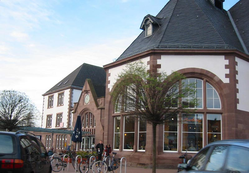 Train station in town of Herford, District of Herford, North Rhine-Westphalia, Germany.